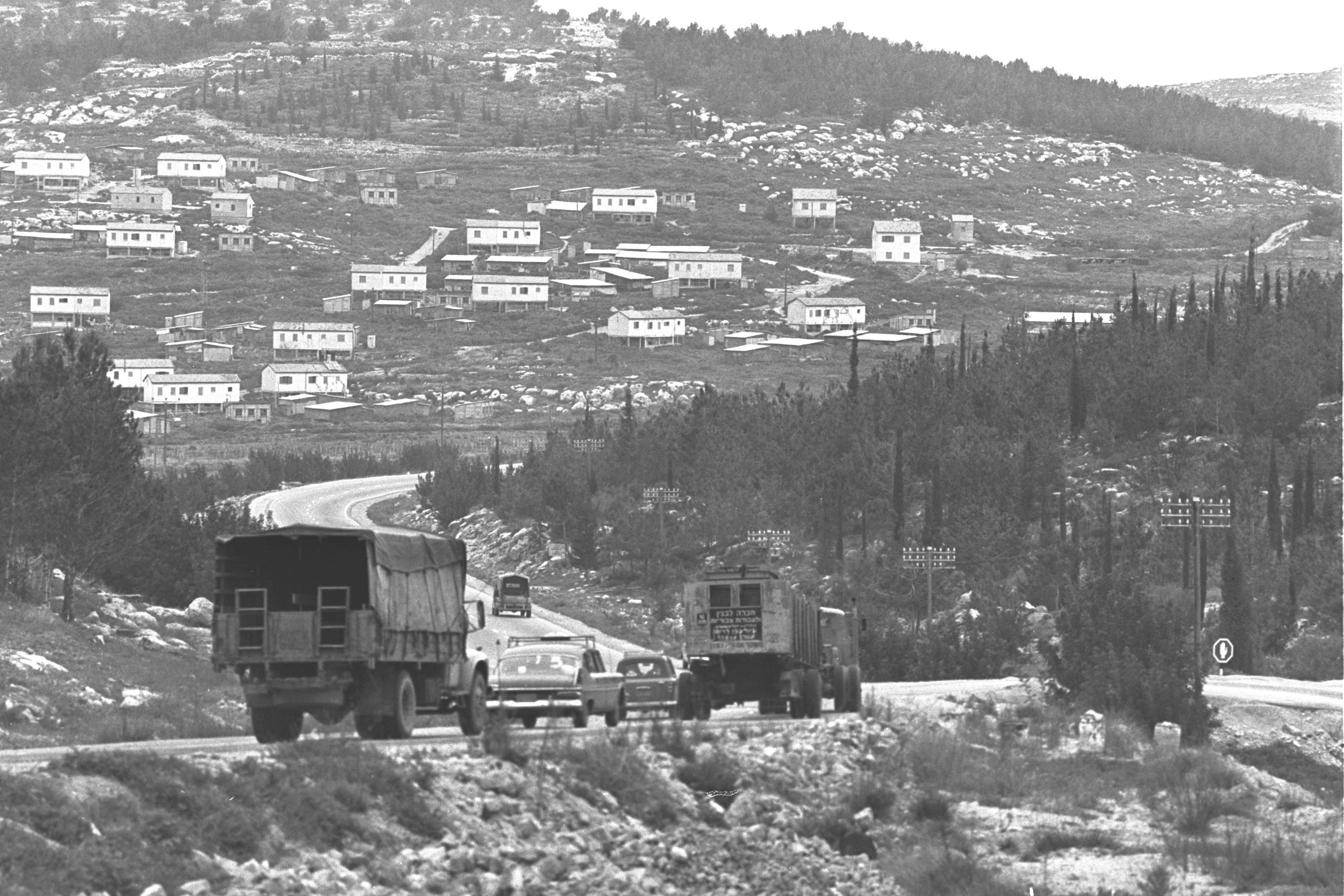 MOSHAV MESILAT ZION STRADDLING THE ROADS TO JERUSALEM.